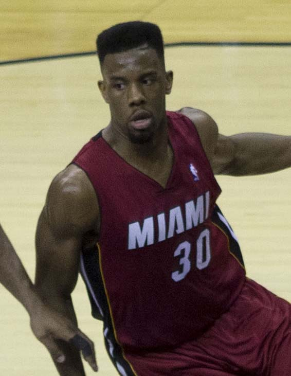 Norris Cole